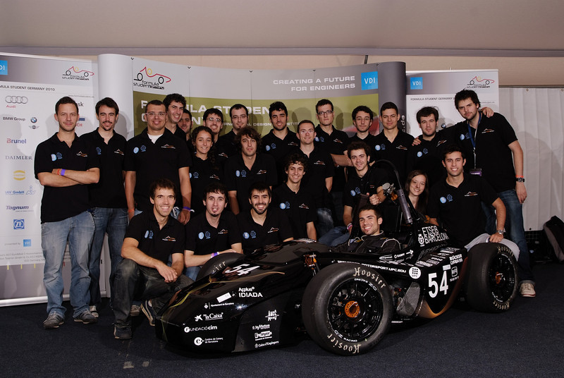 Team picture CAT03